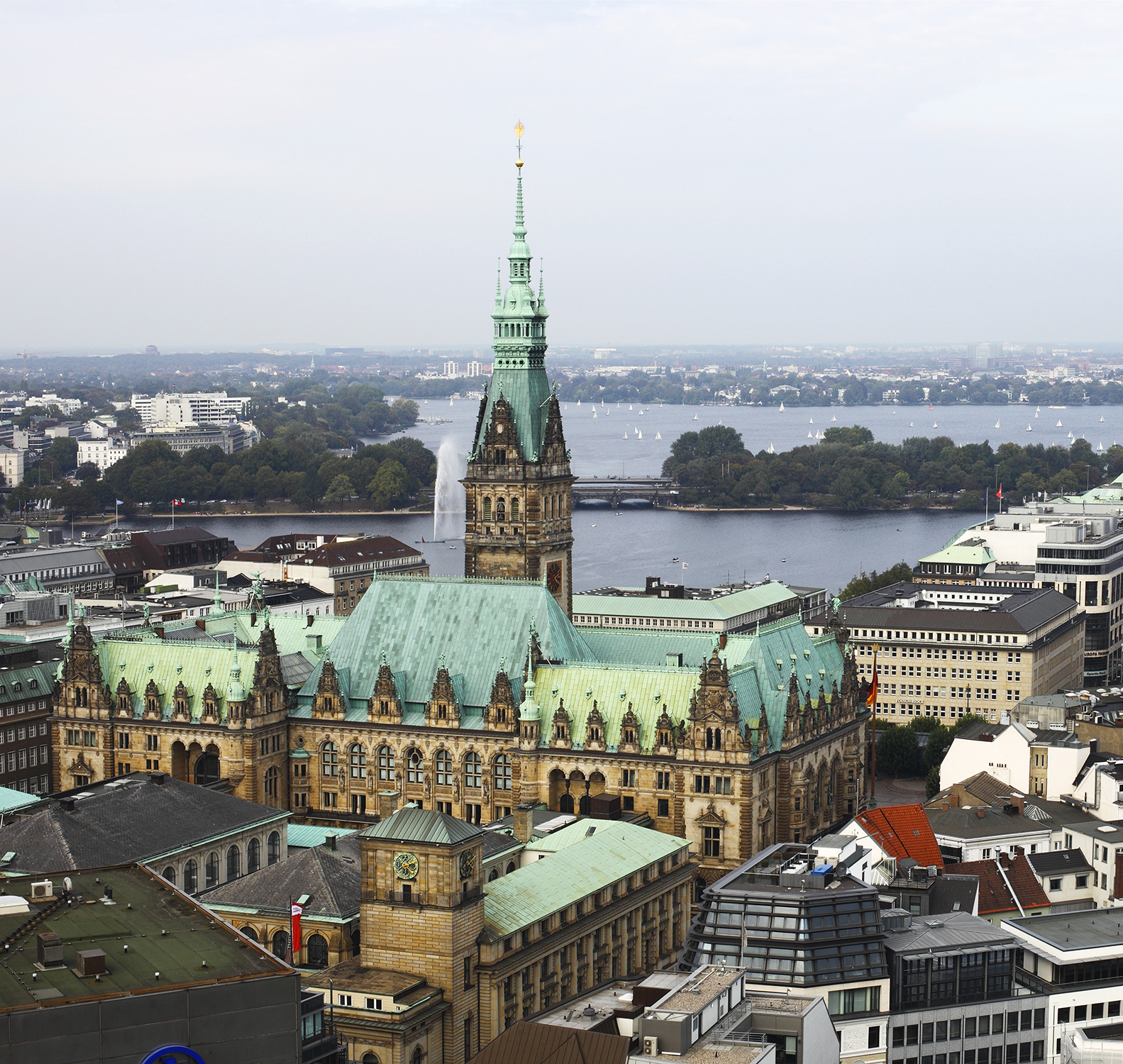 Hamburg cityhall, Germany. Published: Nikolay Yagunov, Tatiana Yagunova. Hanse centuries later. Germany. Poland. Russia. Lithuania: the album of photos — Kaliningrad, 2014. — Volume I. — 205 p. — 2000 сopies. — ISBN 978-83-7823-474-6. — P. 29.